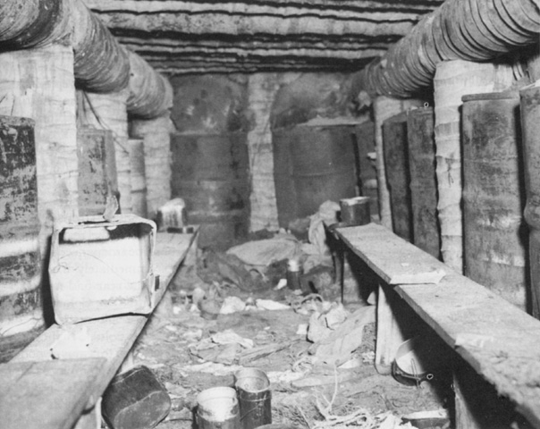 USA-P-Papua-p143 INTERI0R OF COCONUT LOG BUNKER reinforced with sand-filled oil drums near Duropa Plantation. milner